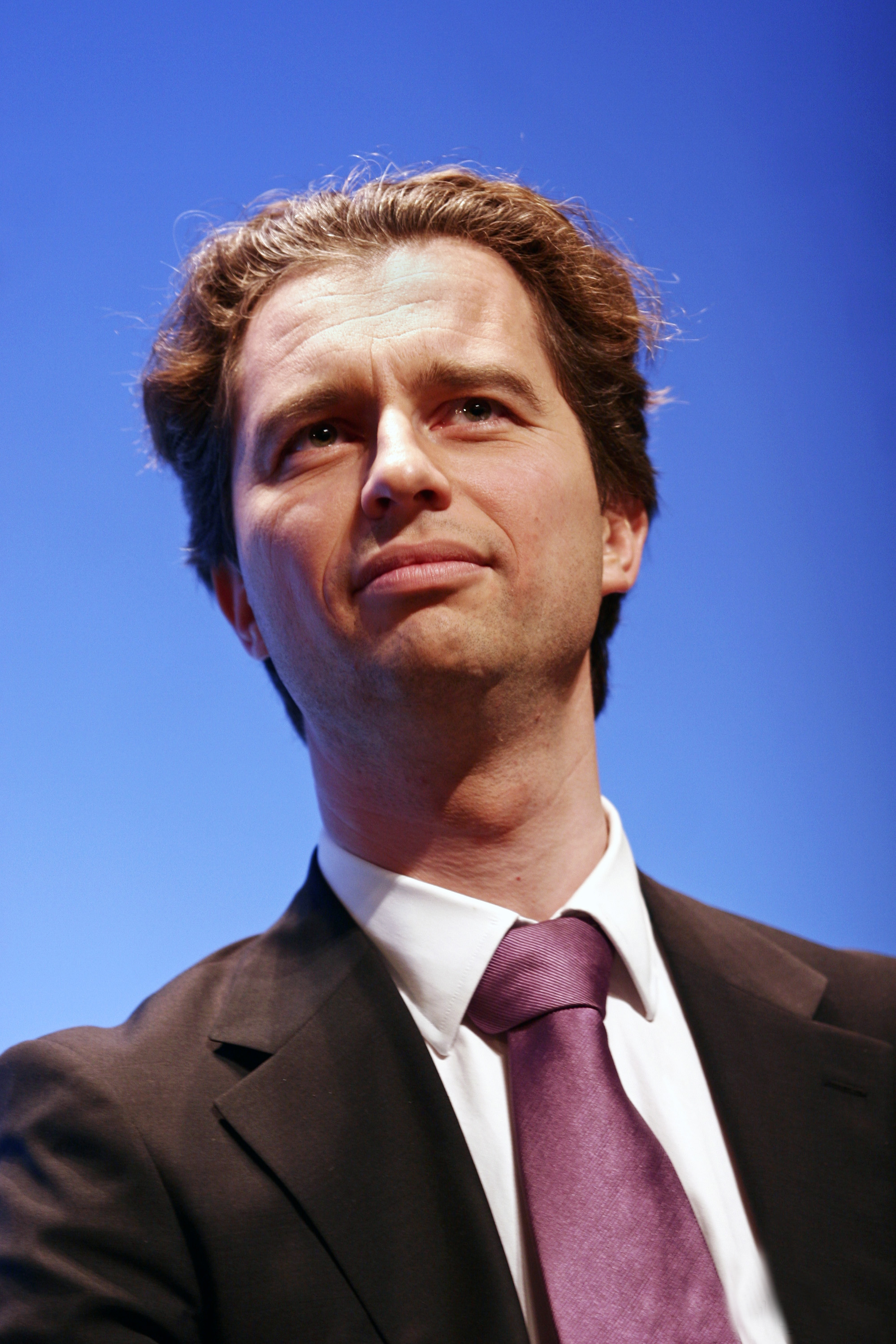 David Martinon